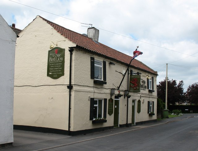 The Olde Red Lion Inn, Holme-on-Spalding-Moor, East Riding of Yorkshire, England.Tucked away from the main road in Holme upon Spalding Moor.